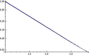 Log-log plot of the cumulative distribution of 100000 random draws from a power-law distribution (exponent = 3)